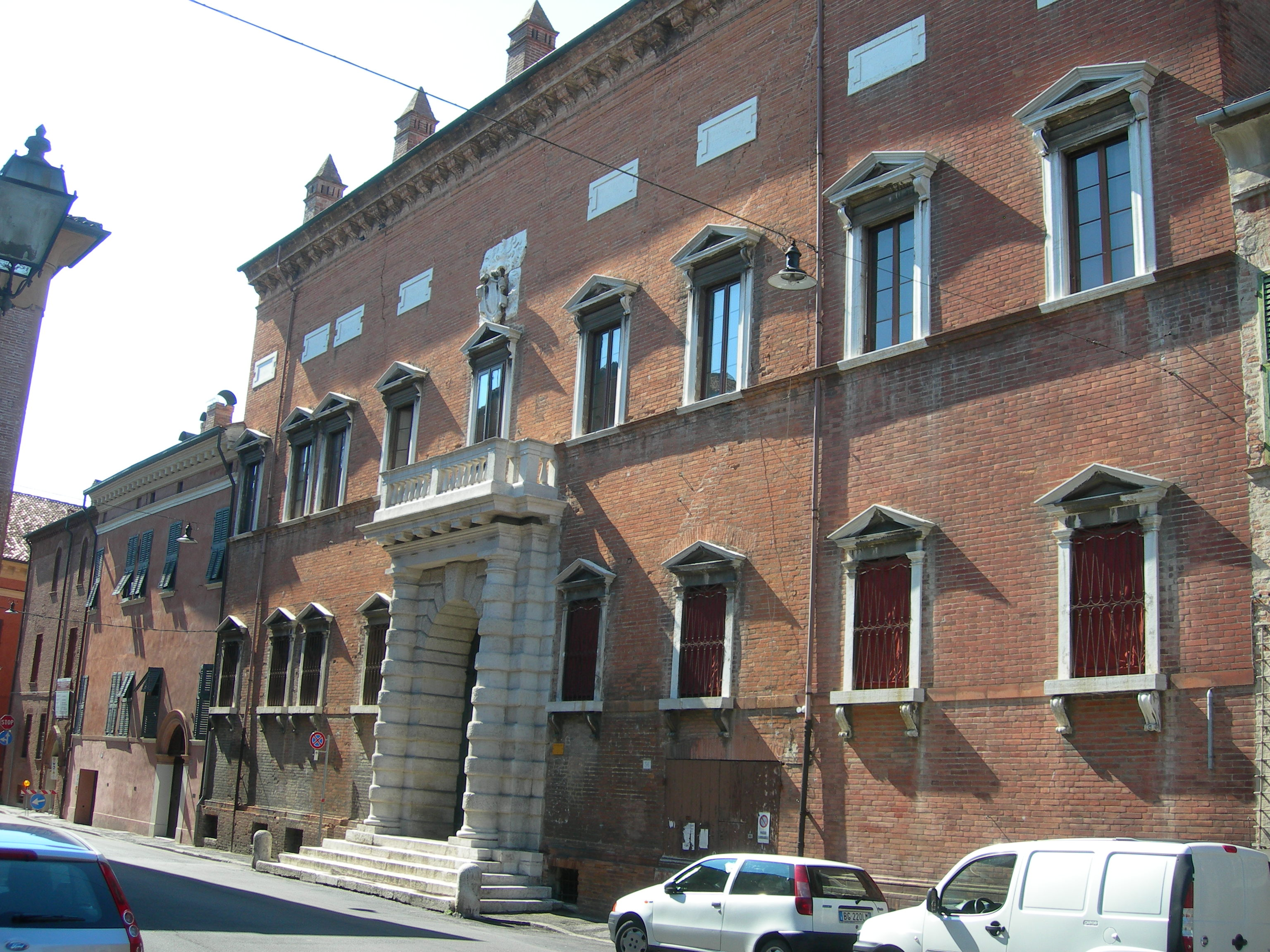 Liberal-arts college